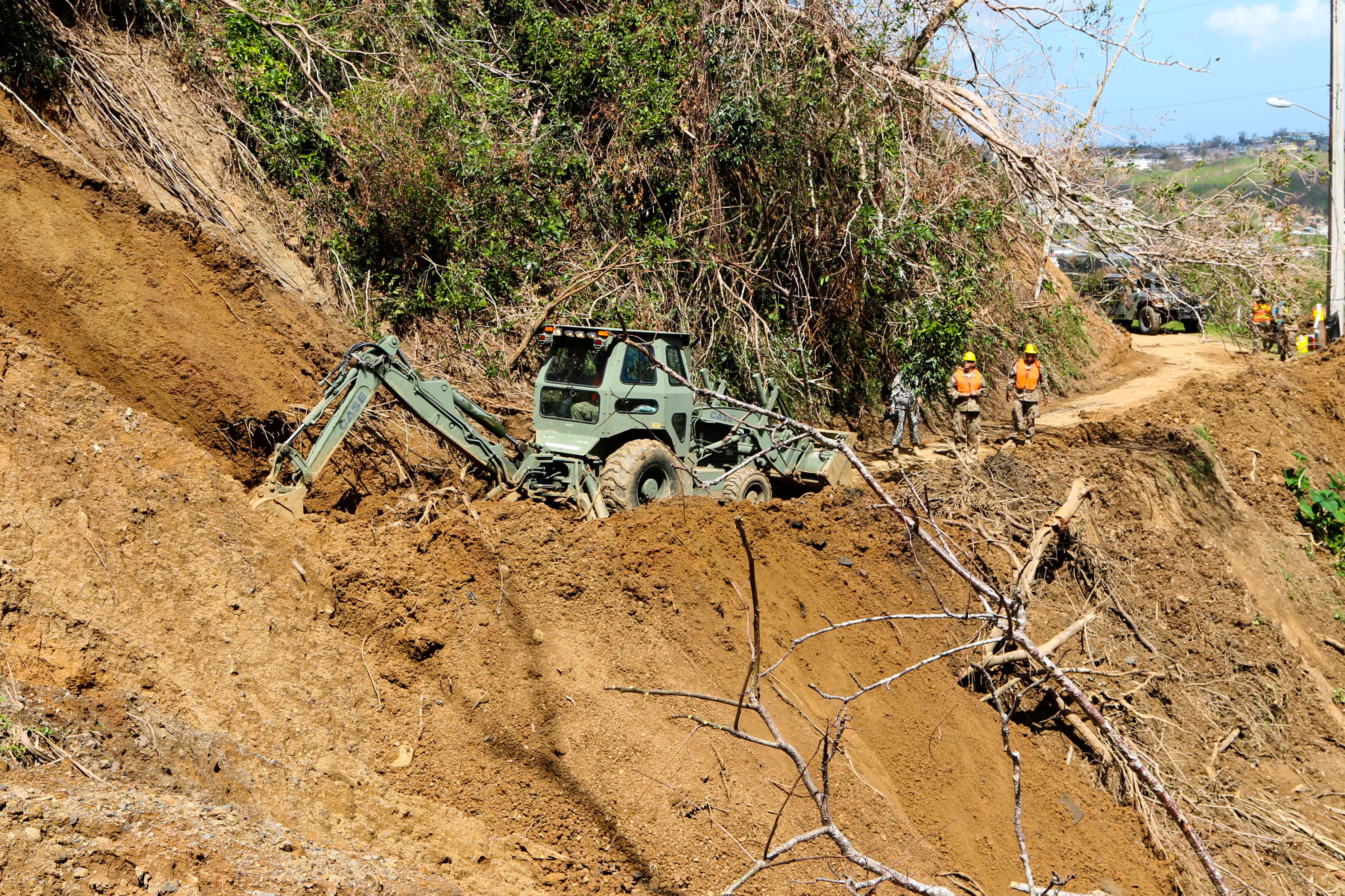 Citizen-Soldiers of the Puerto Rico Army National Guard 1010th En. Co. 130ht En. Bn. work on road clearance and repair at neighborhood Pancho Febus in the municipality of Corozal where over 15 families are isolated because of a landslide caused by Hurricane Maria. (Photo by: Sgt. Alexis Vélez)